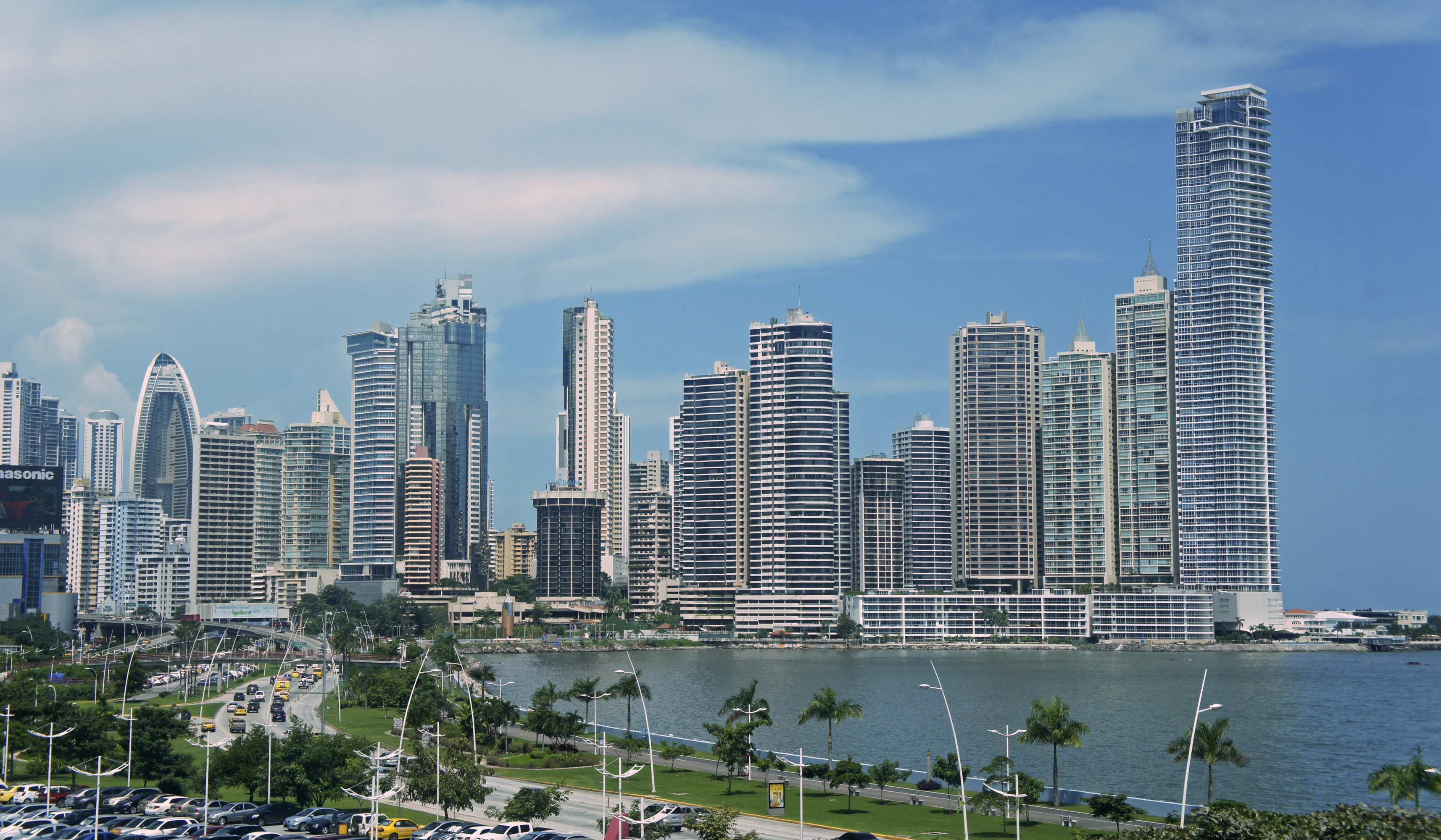 Skyline Panama City, near Balboa Avenue and Punta Paitilla. The Trump Ocean Club International Hotel and Tower, at the left, is the tallest building in Panama, and the Point, at the far right, is the tallest residential building in Panama City